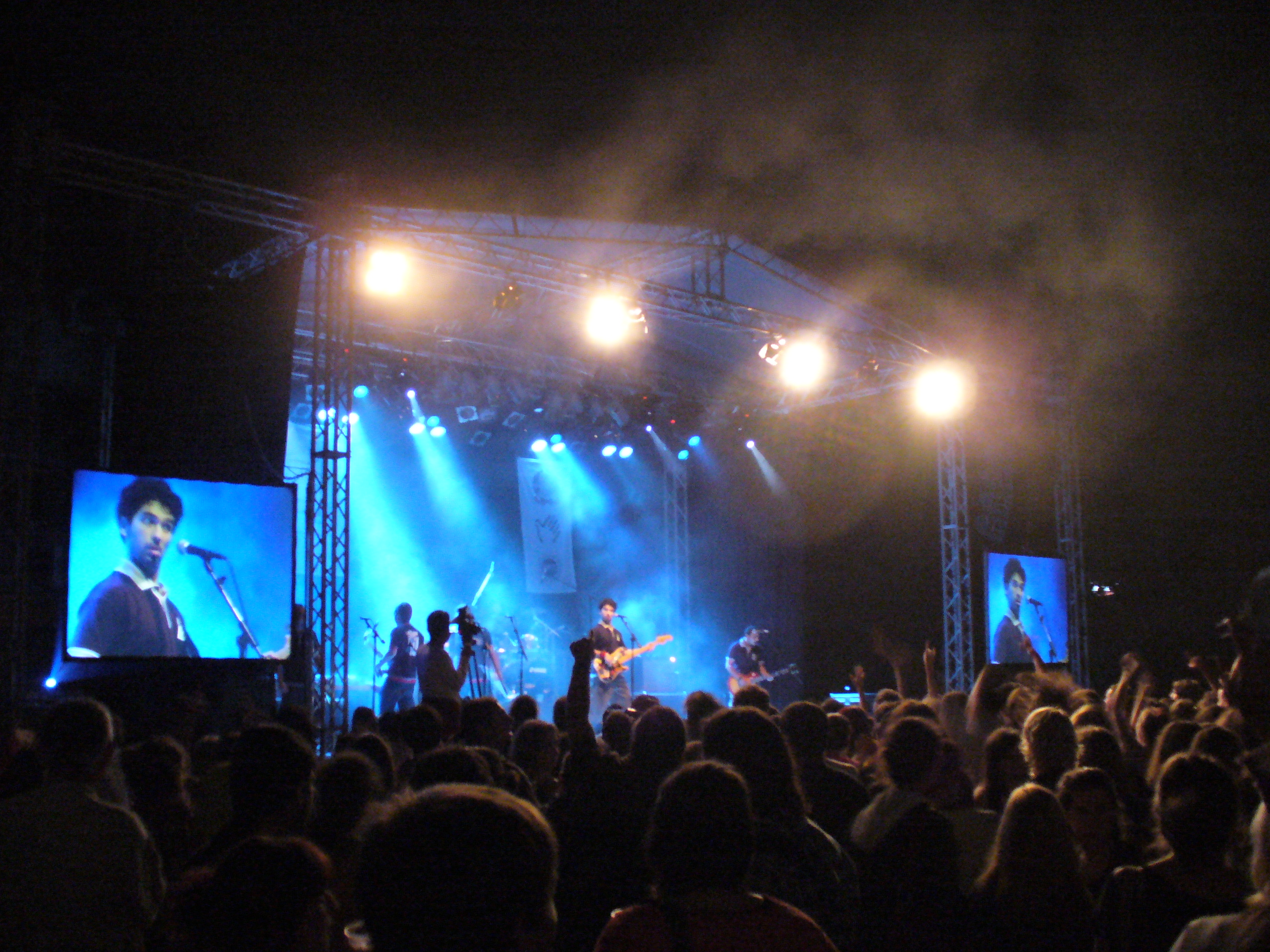 Superhiks on concert. Skopje